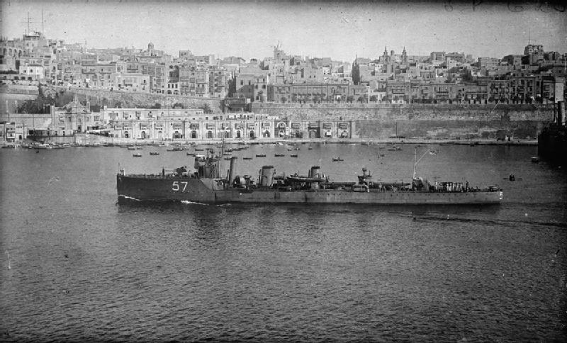 Photograph of British Acorn class destroyer HMS Larne underway in Malta Harbour, Malta.